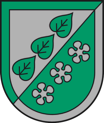 Coat of arms of Sigulda Municipality, Latvia.